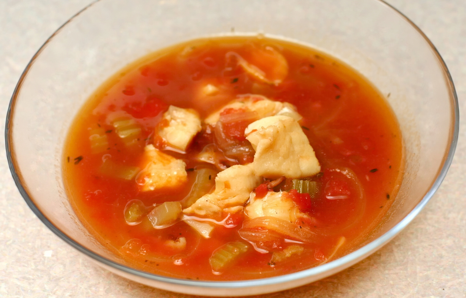 cod soup